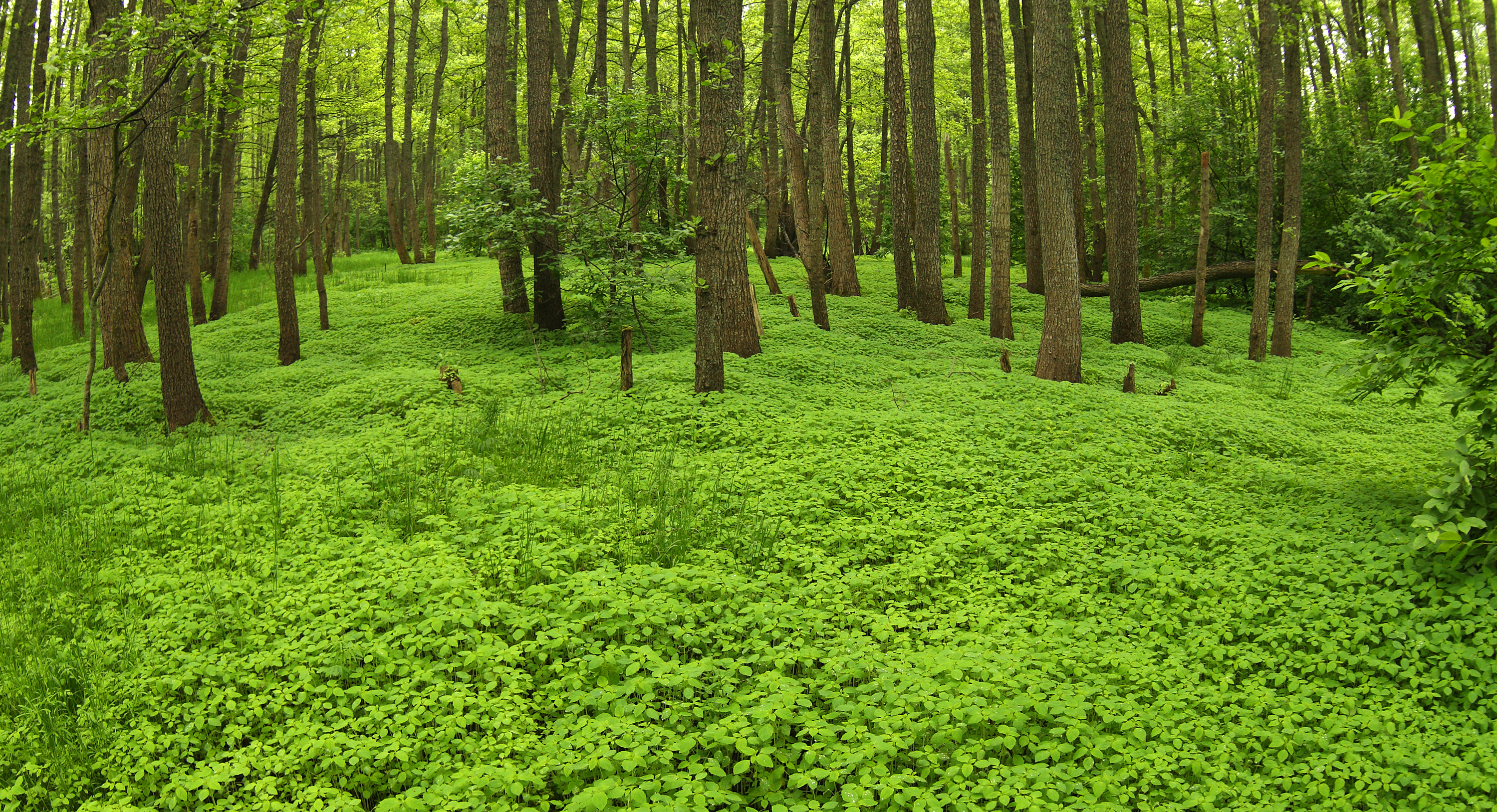 Mercurialis perennis in Muraste Nature Reserve, North-Estonia.